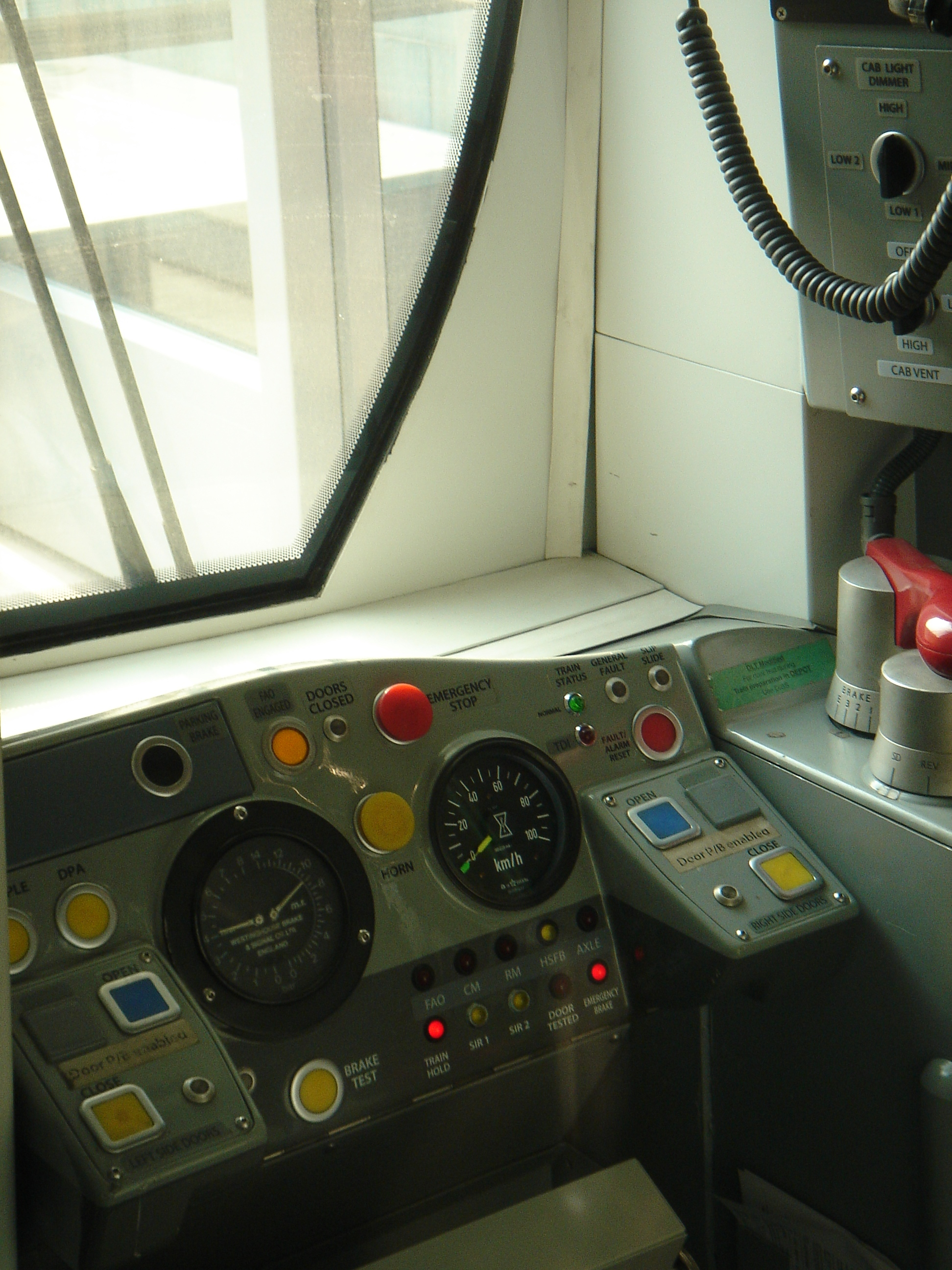 Driving cab of the M-train (Disneyland Resort Line), MTR Hong Kong.